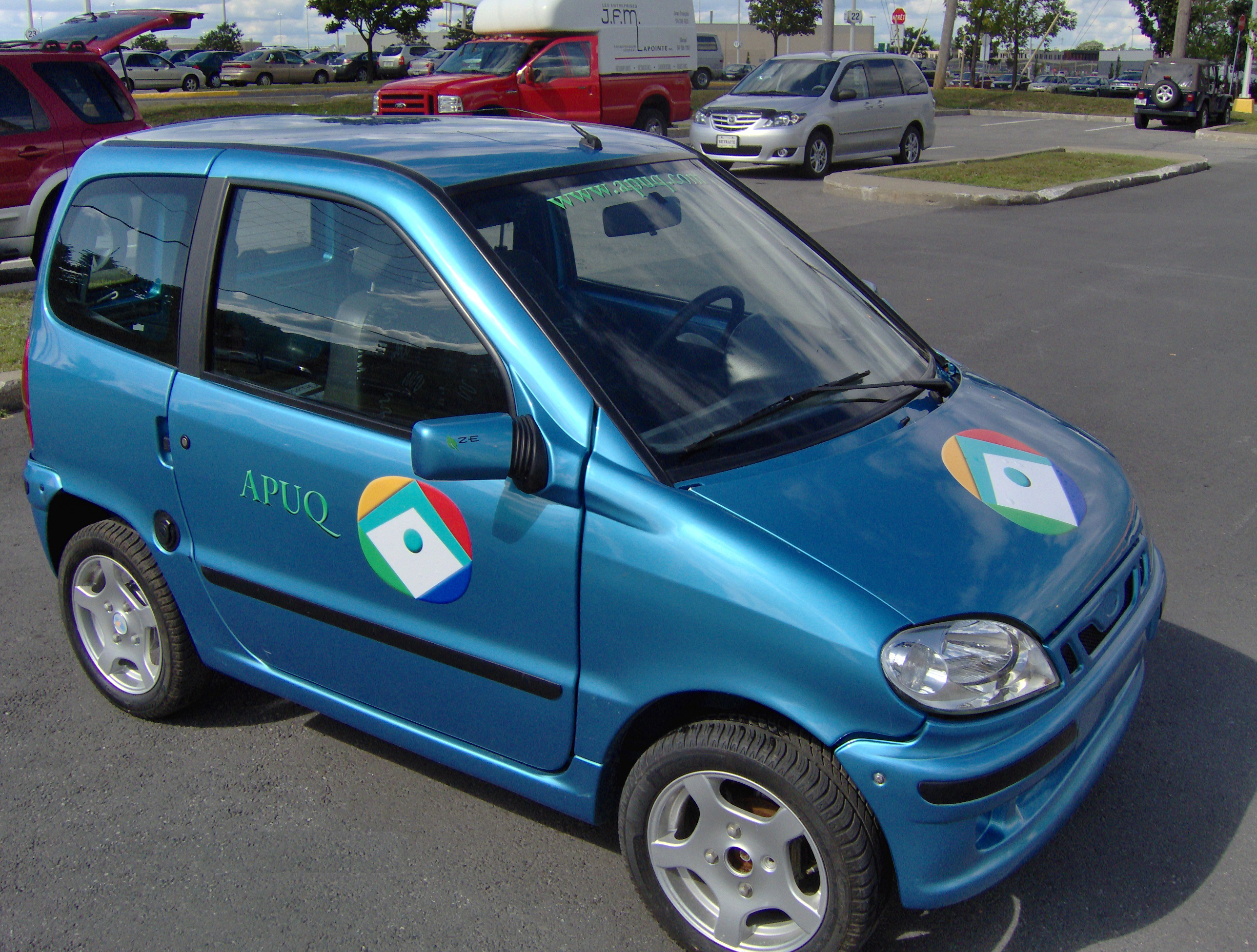 APUQ air-compressed pneumatic microcar. First integration of a pneumatic Quasiturbine(QT5LSC) rotary engine to a conventional transport vehicle.